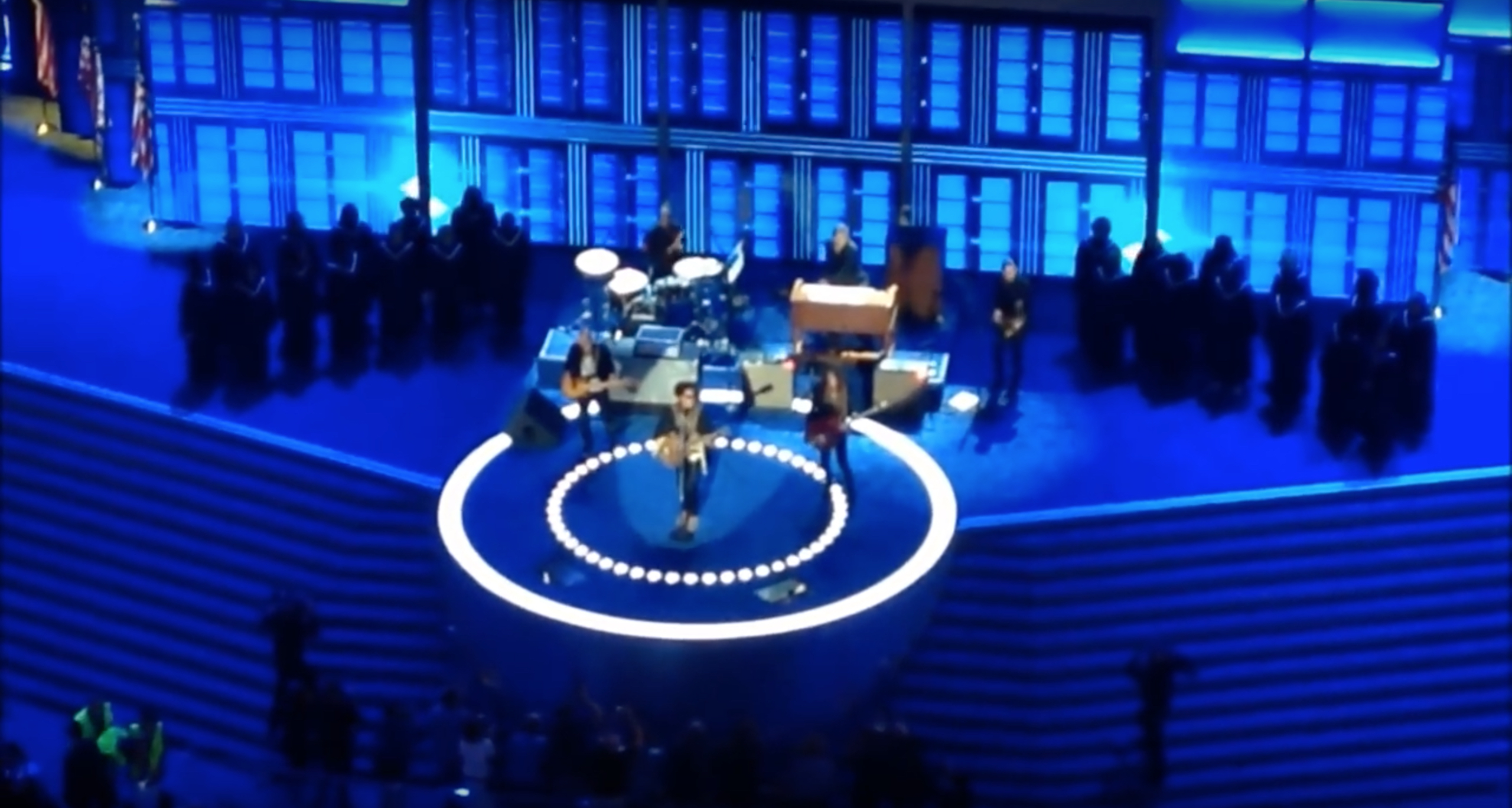 Lenny Kravitz performs at the 2016 Democratic National Convention